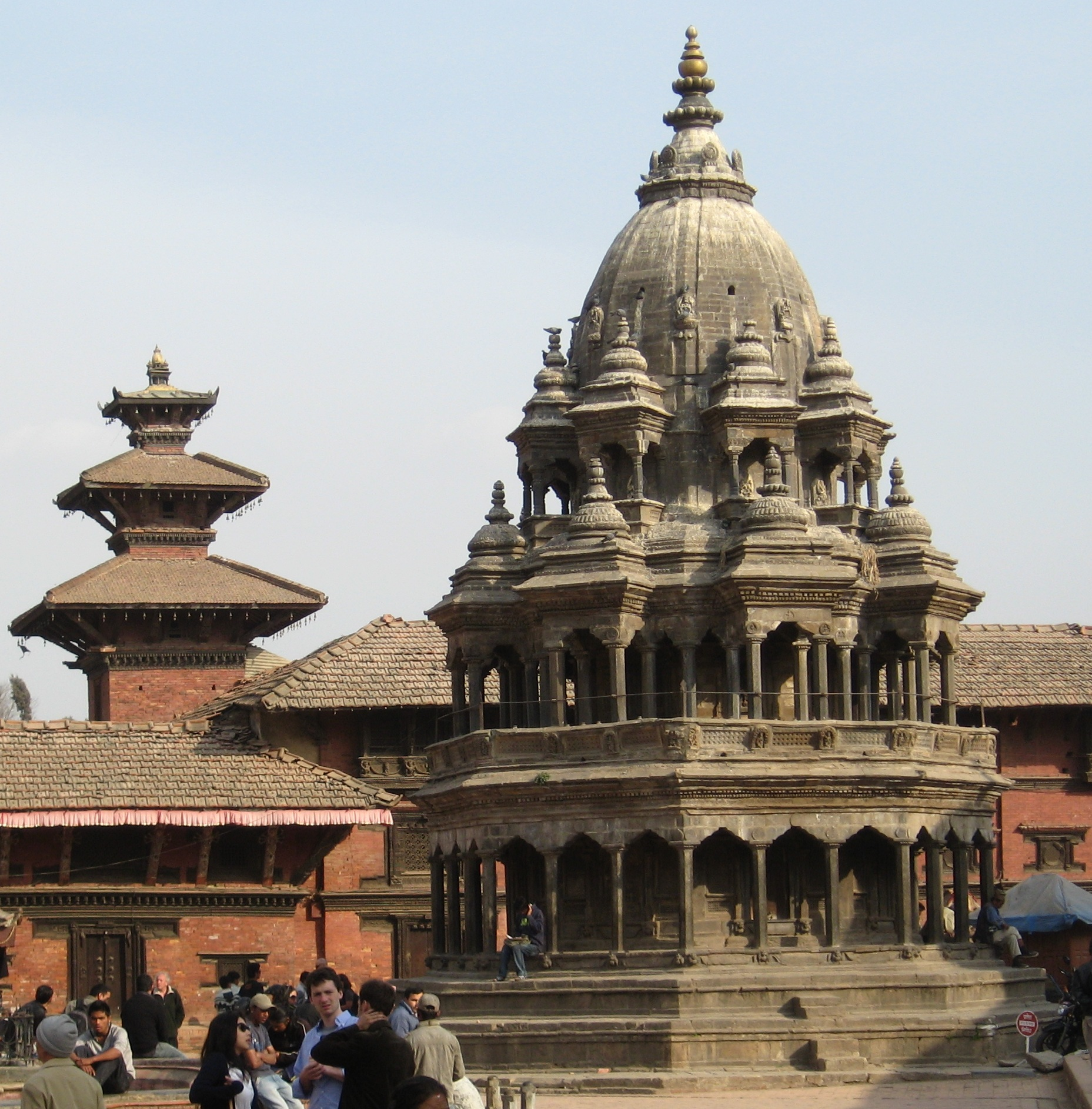 The Patan Durbar Square in Kathmandu. Object location 27° 40′ 24.00″ N, 85° 19′ 30.00″ E - OpenStreetMap - Proximityrama (Info)